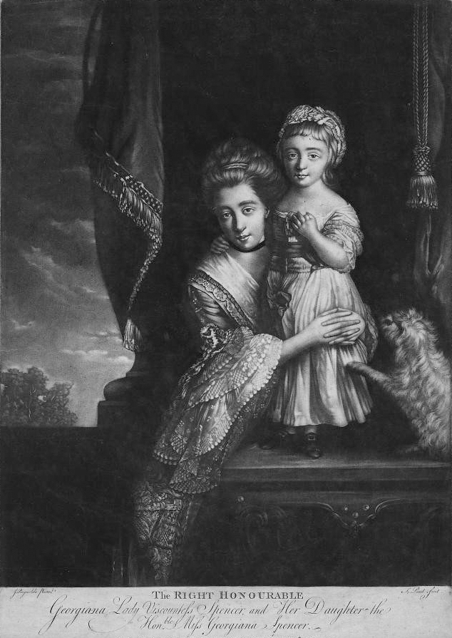 Georgiana Poyntz, Countess Spencer and her daughter Lady Georgiana Spencer, Duchess of Devonshire